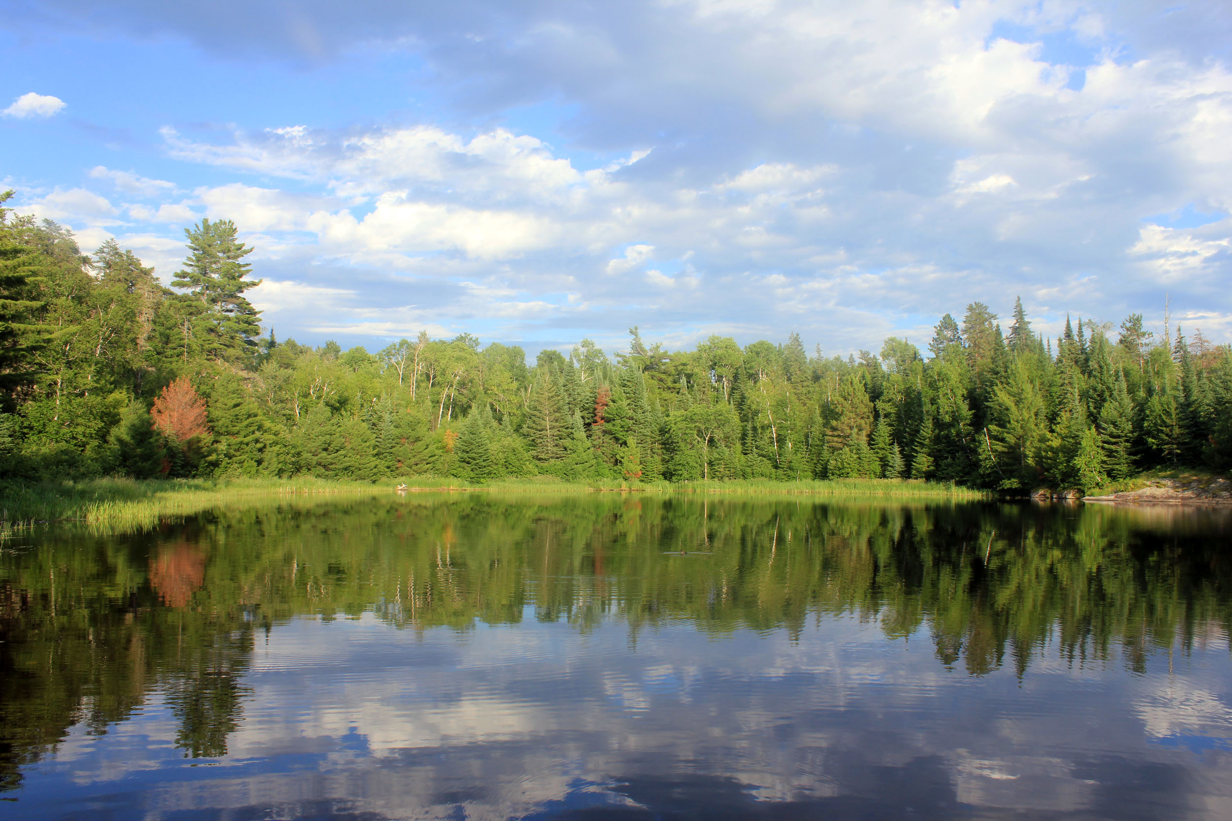 Encompassing four different lakes either competely or partly, Voayguers National Park is a great place for hiking, caneoing/kayaking, fishing, camping, and othe View of the shoreline of the Bay of Lake Kabetogama